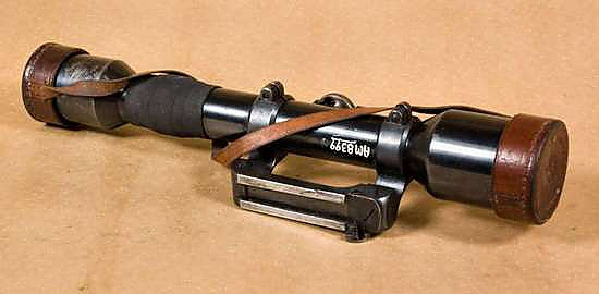 Rifle scope (ZF Ajack 4×90) for Swedish sniper rifle Model 1941. From the collections of Armémuseum (Swedish Army Museum), Stockholm. It offers 4x magnification and features a 38 mm objective lens, making it a 4×38 telescopic sight in modern terminology.